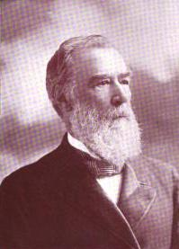 John C. Bryant founder of Bryant & Stratton College of Buffalo New York from : The men of New York: a collection of biographies and portraits of citizens of the Empire state prominent in business, professional, social, and political life during the last decade of the nineteenth century ... (Google eBook) (Matthews, George E., & Co., Pub, 1898), pg. 24